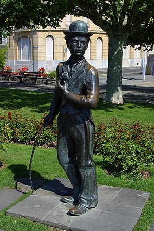 Vevey: Charlie Chaplin, by John Doubleday